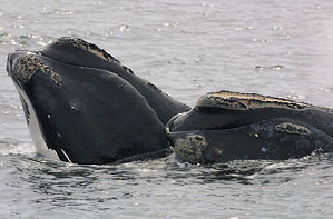 Two right whales surfacing